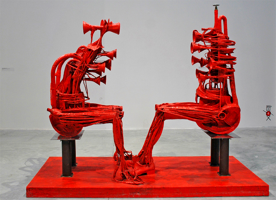 Karel Nepraš, sculpture Big dialogue, 1966, wire, metal, fabric, epoxy resin, red varnish, size 145x190x83 cm